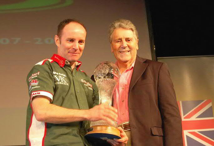 Photo of Ian Lougher receiving the Duke Road Race Rankings Trophy from Geoff Duke at the Isle of Man TT press launch